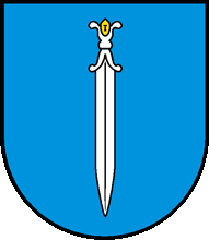 Coat of arms of La Tène, Neuchâtel, Switzerland. The former municipalities of Marin-Epagnier and Thielle-Wavre merged on 1 January 2009 to form the new municipality of La Tène.